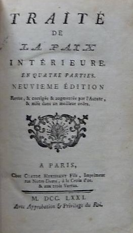 Traité de la Paix intérieure page de couveture, Ambroise de Lombez édition du XVII° siècle